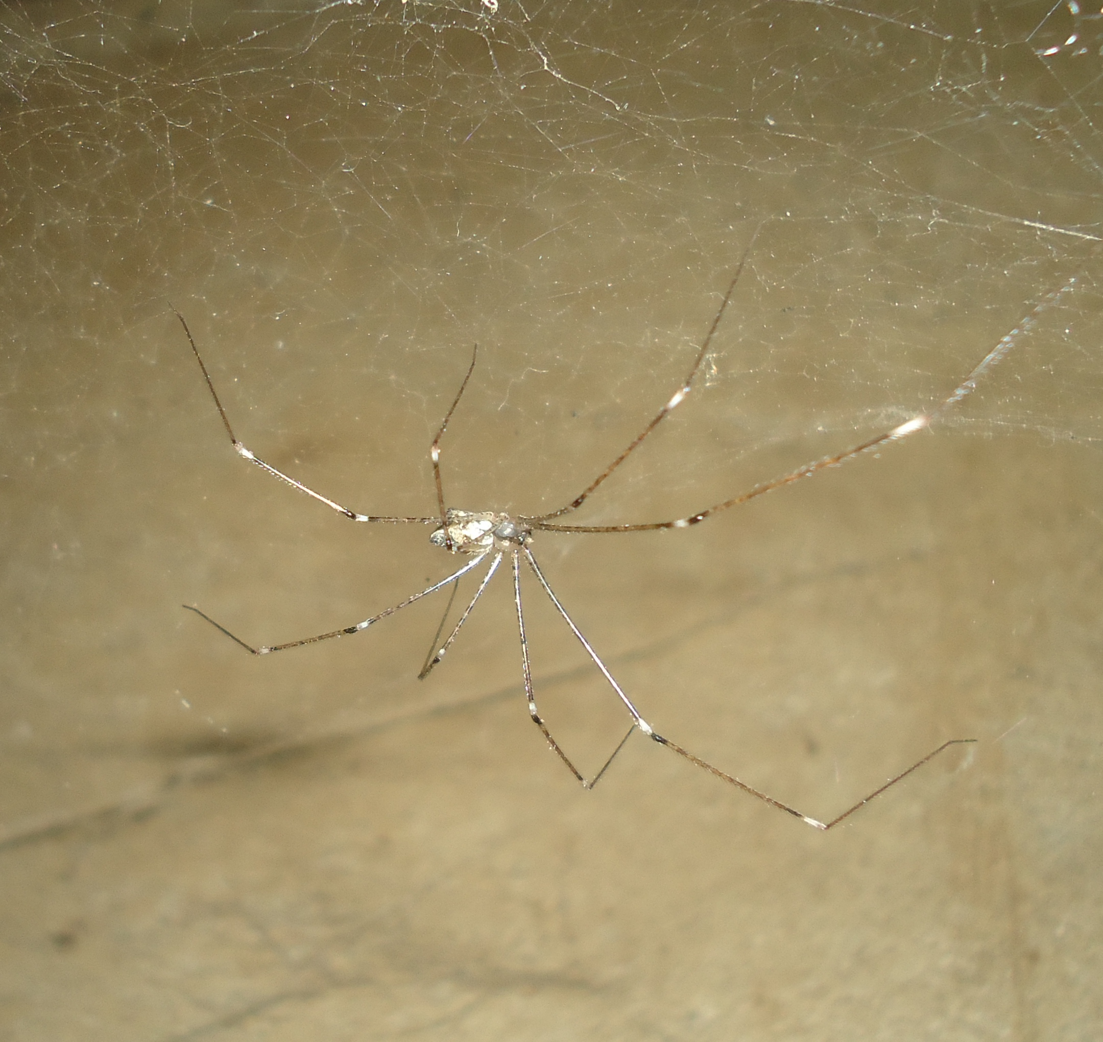 Female Crossopriza lyoni. Mindanao, Philippines